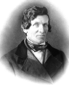 George McClellan, eminent surgeon, Founder of Jefferson Medical College.